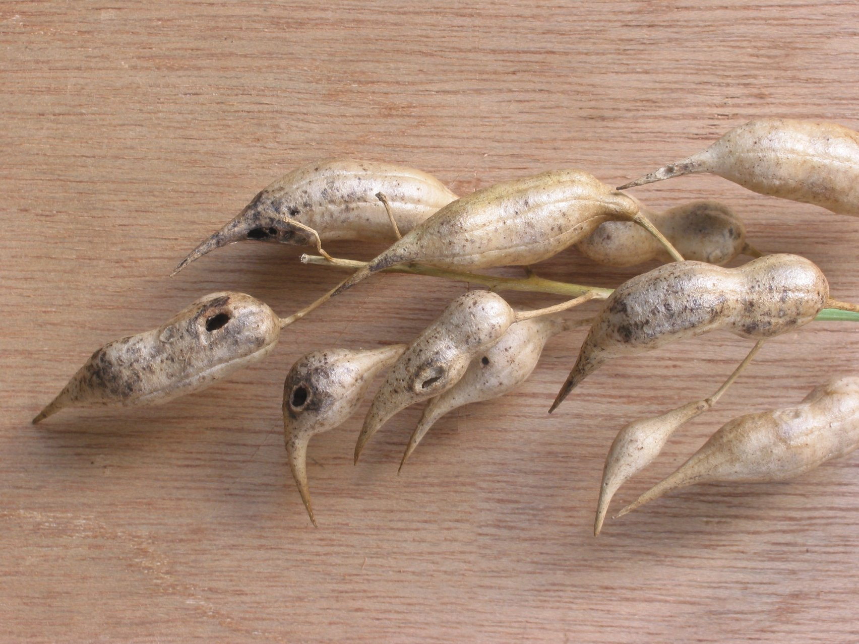 Raphanus sativus subsp. oleiferus fruits